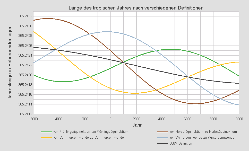 The length of the tropical year, when defined as the time interval needed by the sun to return to the same point in its apparent yearly orbit, depends on where in the orbit the starting point is selected and shows a wobble with a period of about 21000 years. The modern definition, based on the rate of change of the sun's mean longitude, is independent of any reference points and has only a weak, long-period wobble.